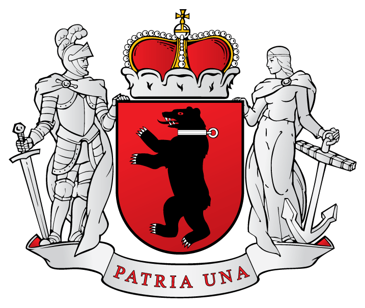 Grand Coat of Arms of Samogitia